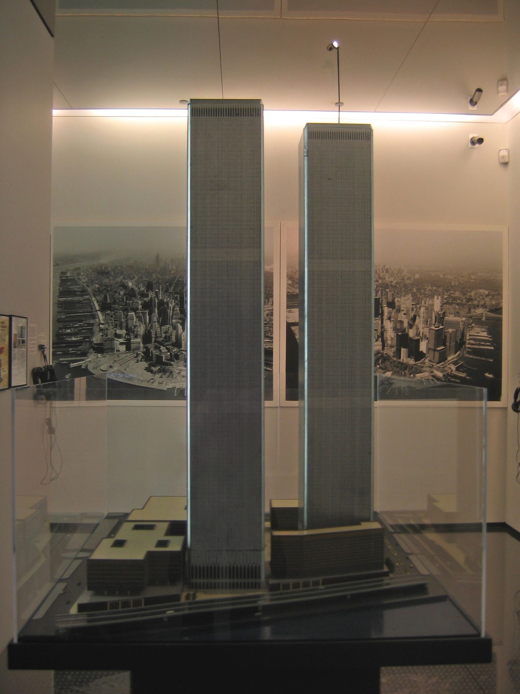 Original architectural/engineering model of the World Trade Center, on exhibit at the Skyscraper Museum in New York City.